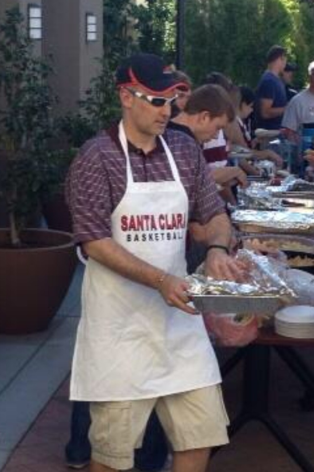 Kerry Keating, Santa Clara University Men's Basketball Head Coach